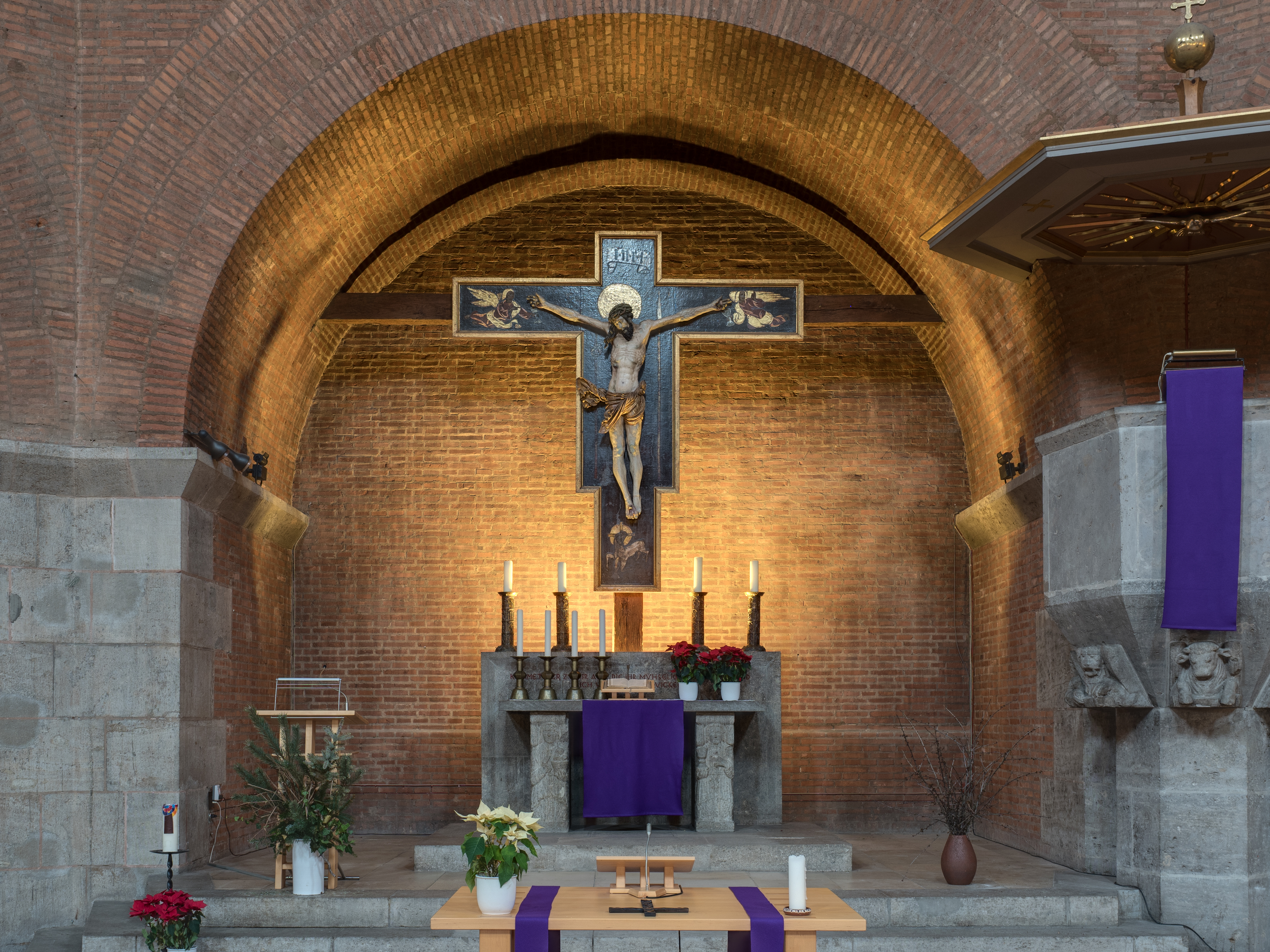 Altar with crucifix in Erlöserkirche in Bamberg